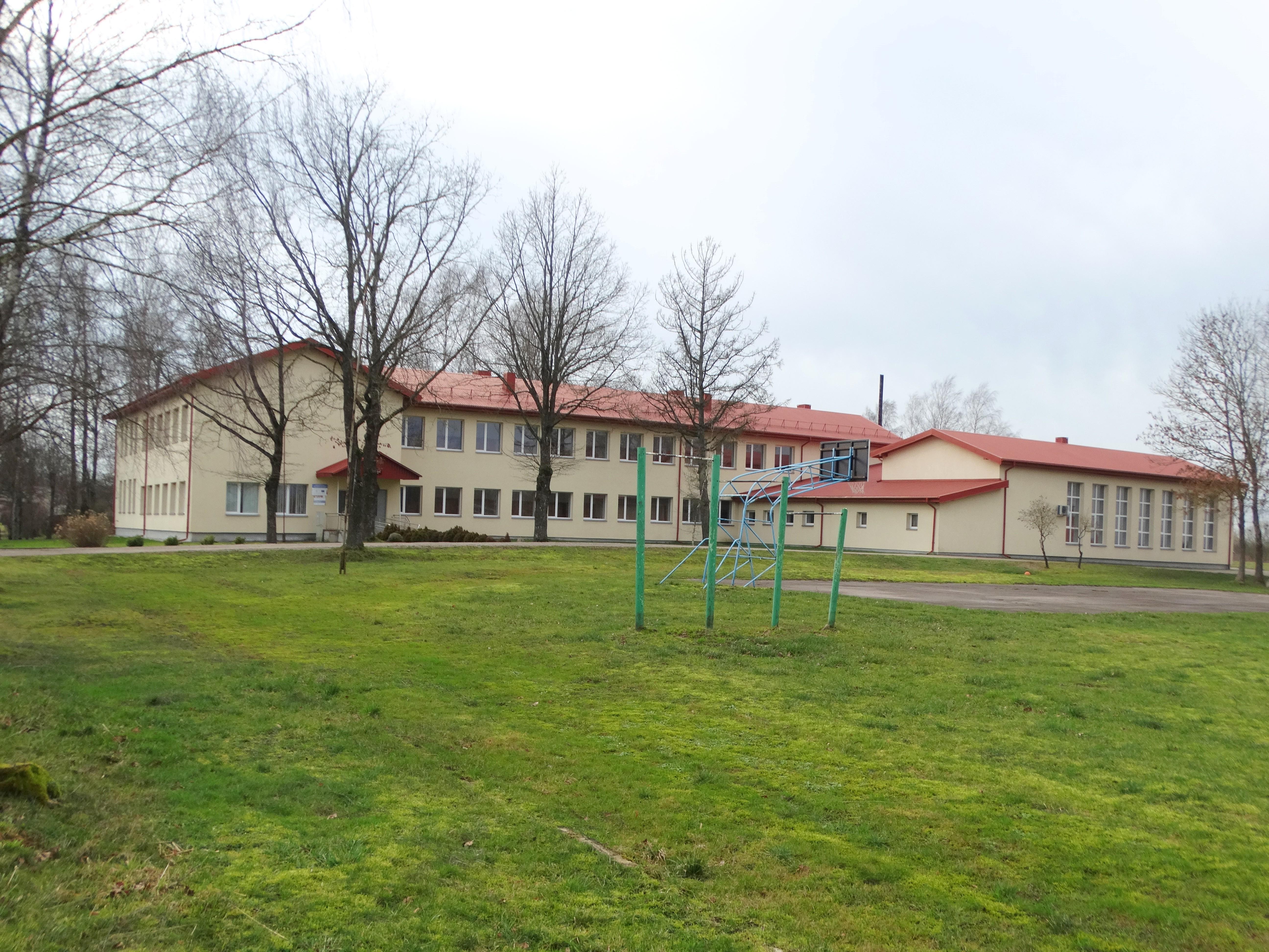 Šatės, school, Skuodas District, Lithuania